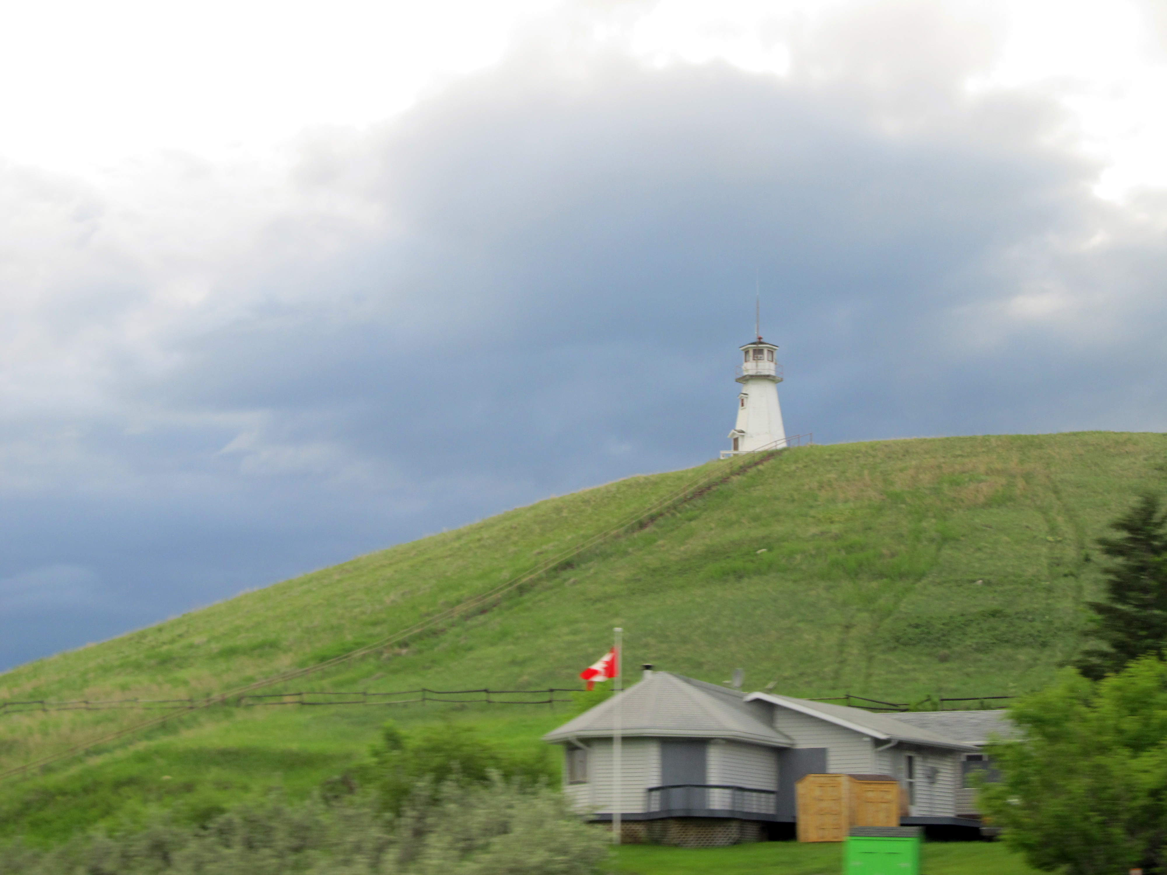 The lighthouse is accessible by a 158-step staircase from the bottom of Pirot Hill. No one was adventurous enough to try it.